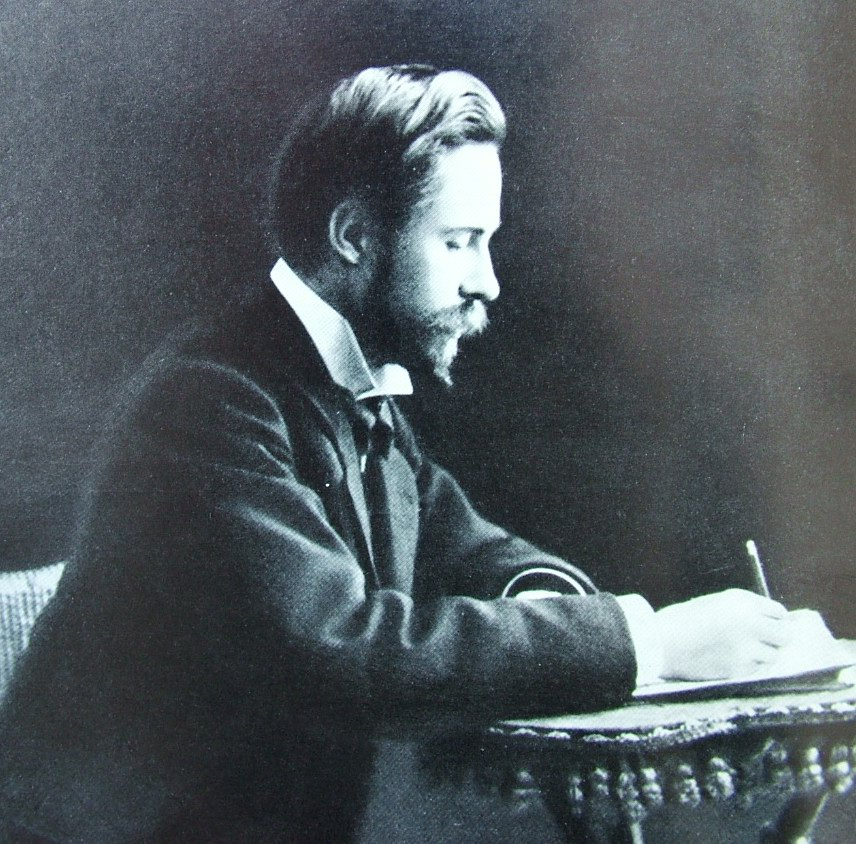 A.N.Scriabine 1905